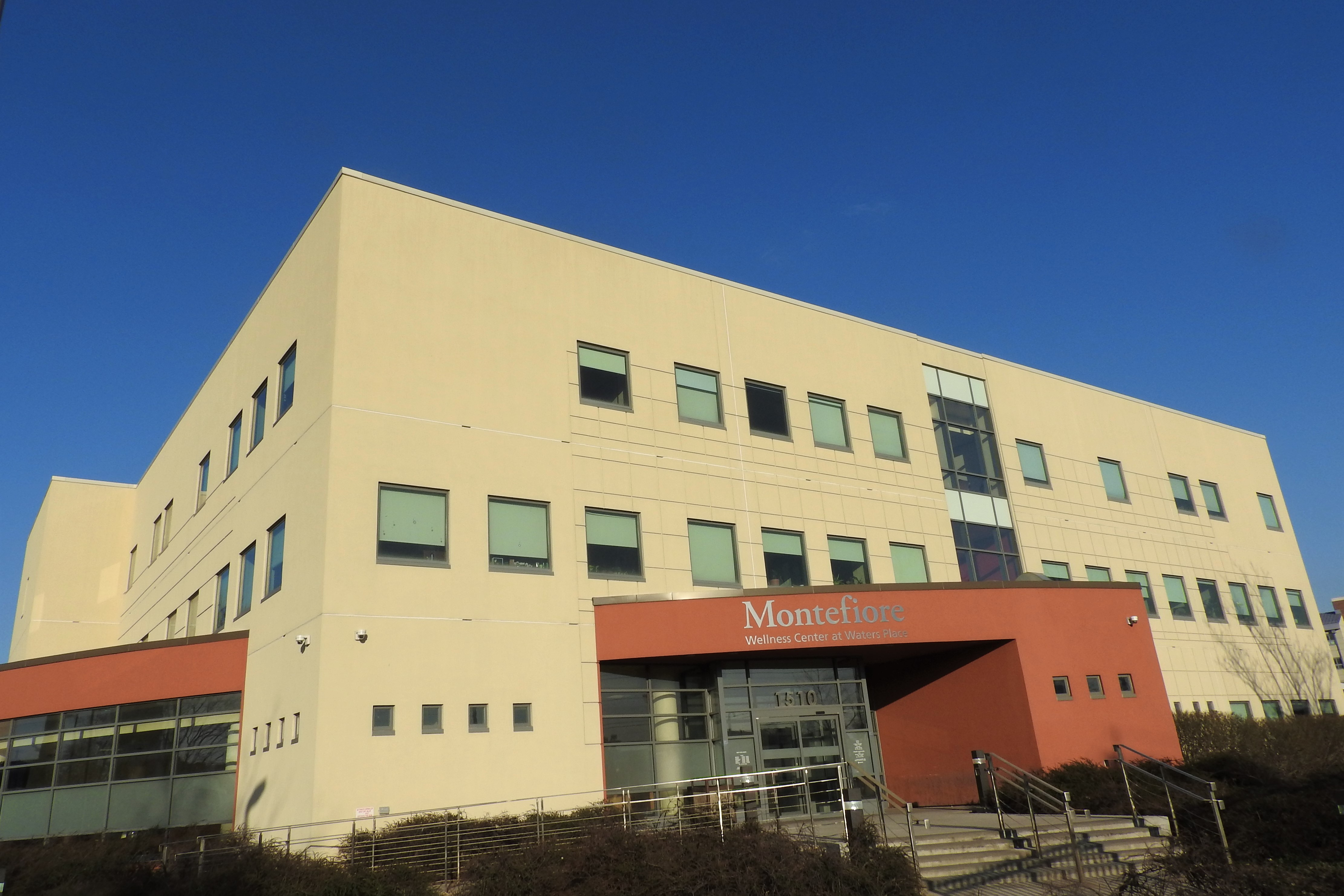 Looking east at building on a sunny afternoon